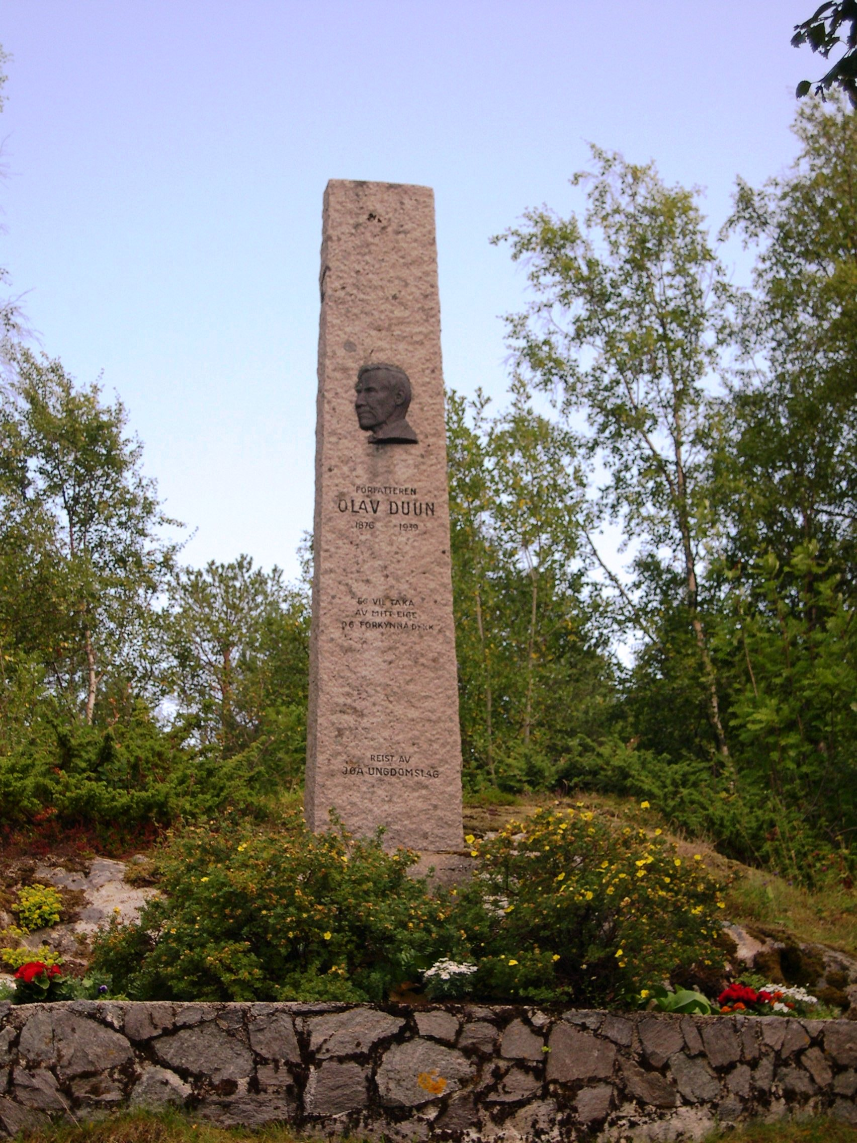 Memorial stone of norwegian author Olav Duun at Øver Dun at Jøa, Fosnes municipality, Norway